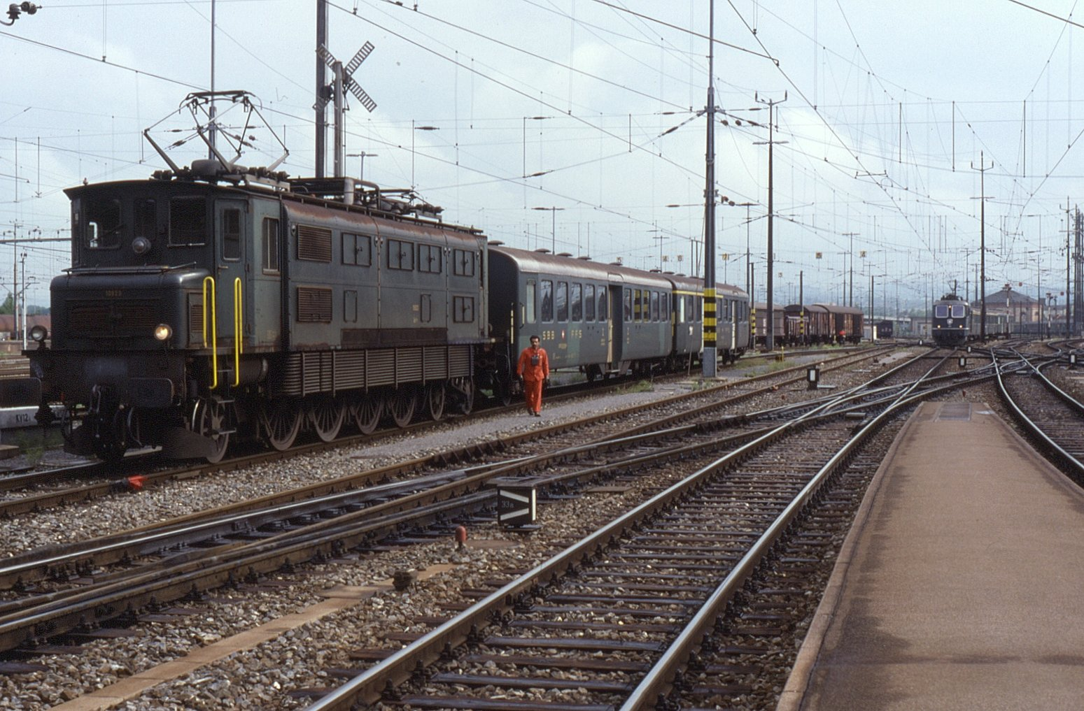 Dating back to the late 1920s and early 1930s, this class of locos belonging to SBB were the most common. Seen at Romanshorn on 3 August 1988 is no. 10933. Long since withdrawn although some have been kept back as museum locos.